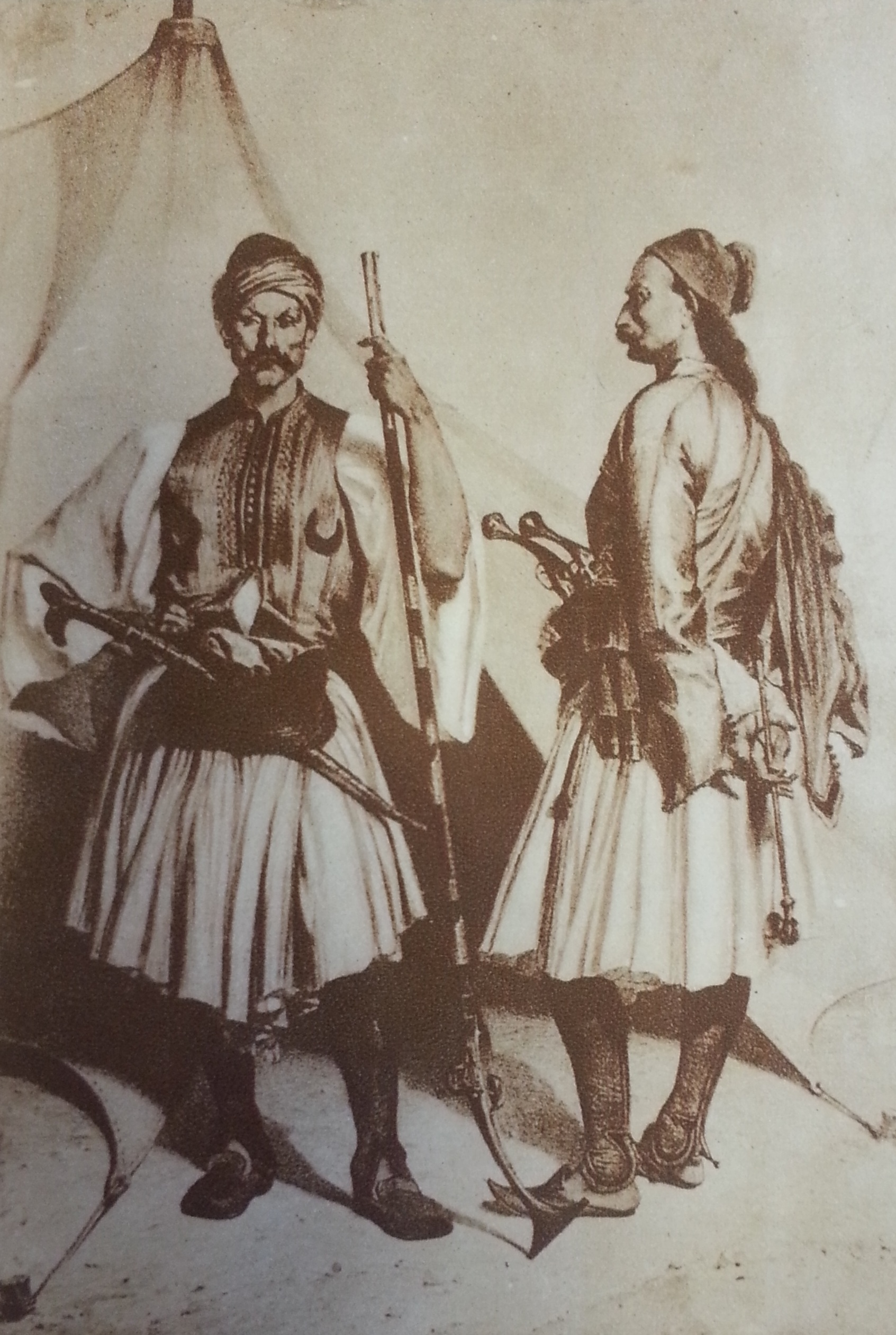 2 Arnavut Soldiers in Ibrahim Pasha's Army